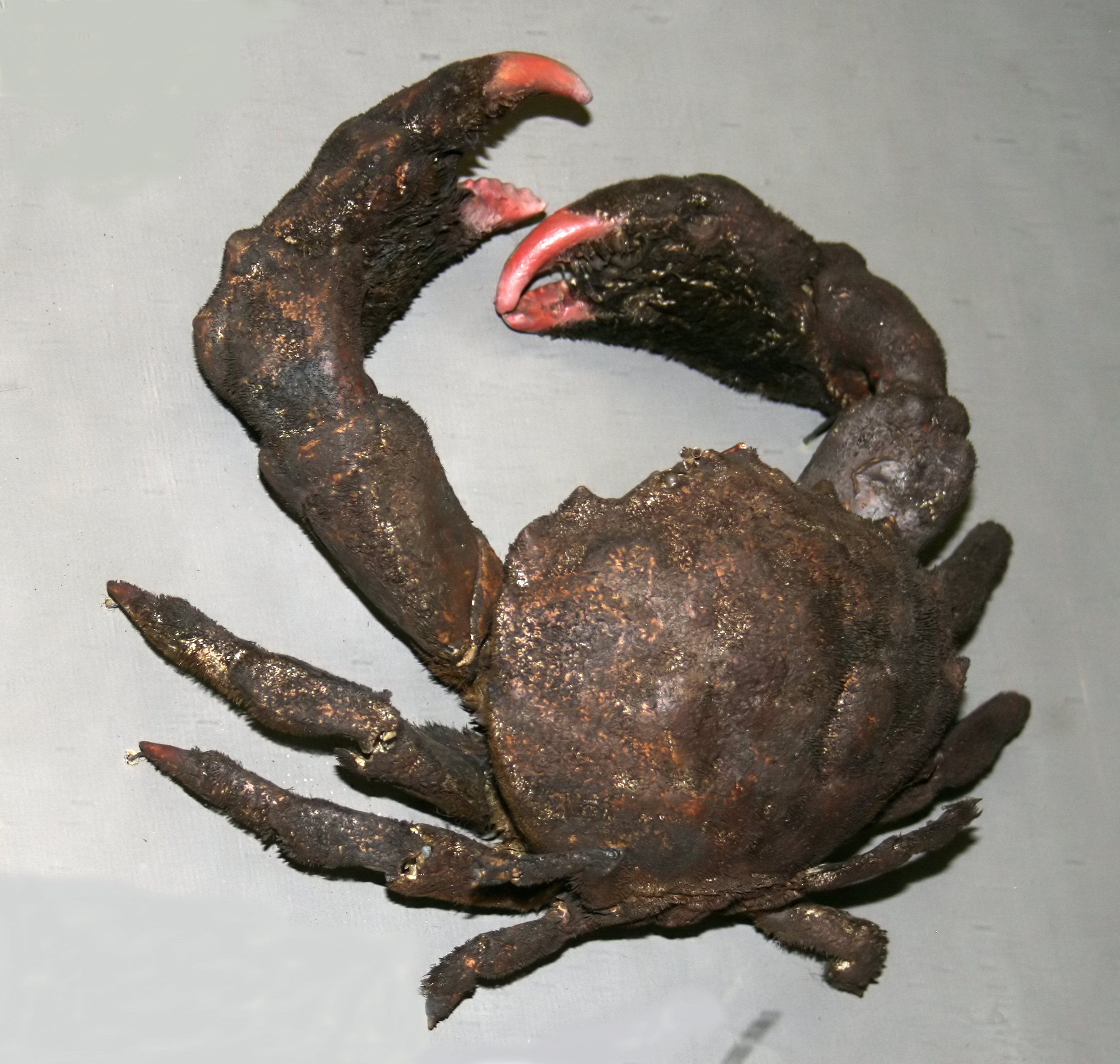 Crab (Dromia personata) from National Museum, Prague, Czech Republic